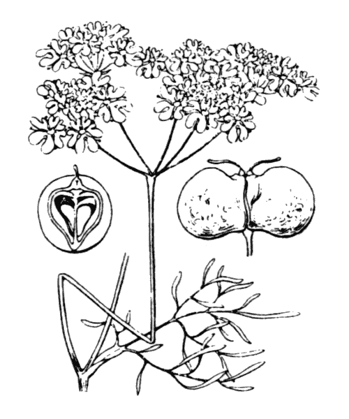 Wild Bishop (Bifora radians), an etching by Hippolyte Coste (1858-1924), Flore descriptive et illustrée de la France, de la Corse et des contrées limitrophes, published from 1900 to 1906 by Paul Klincksieck.